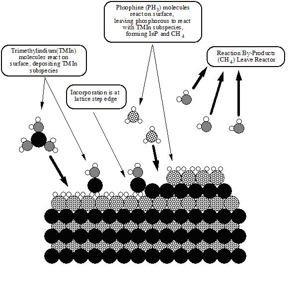 Author: Dr. C. J. Pinzone